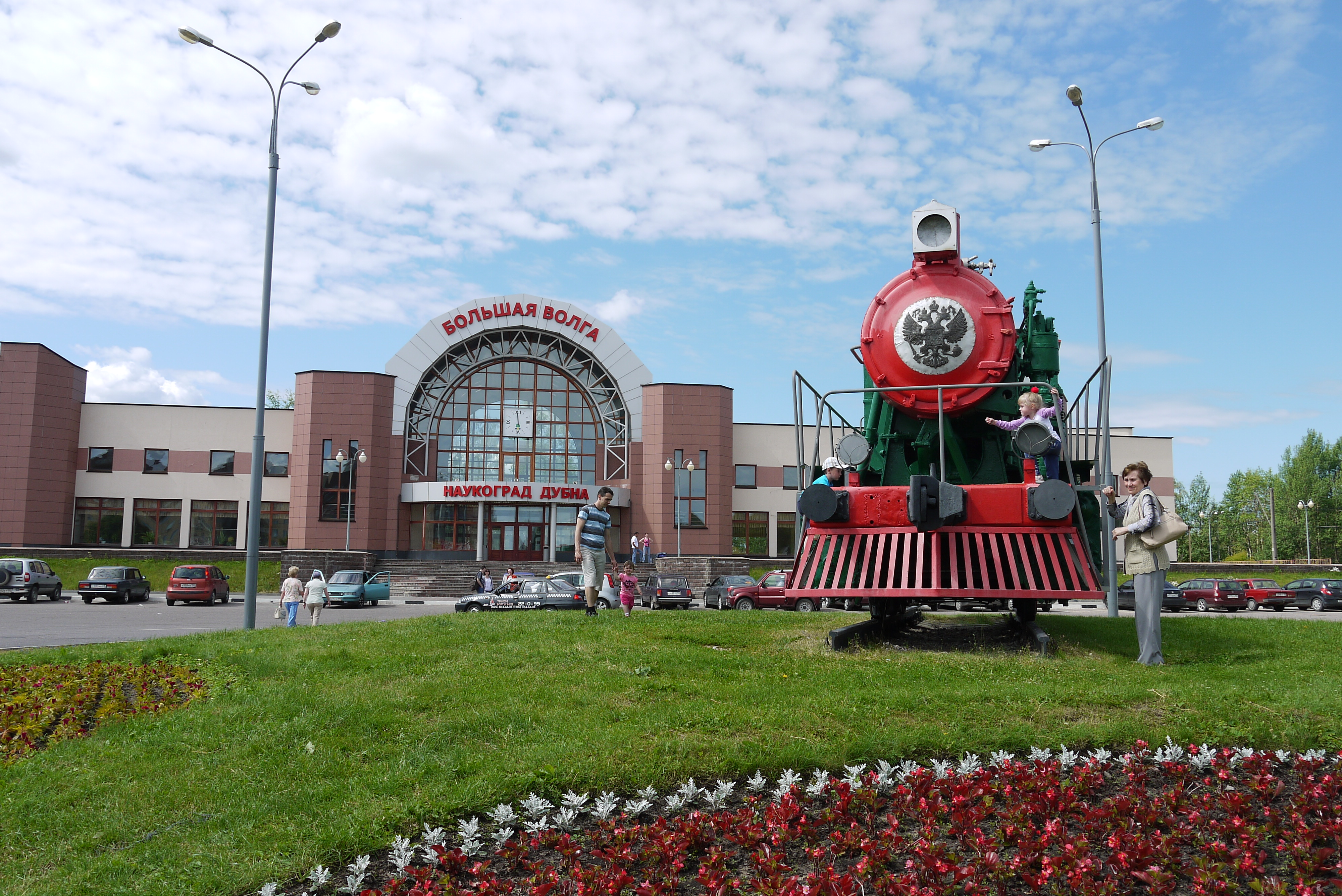 Russian locomotive class 9P Number 9P512 at Bolshoi Volga station Dubna, Russian Federation